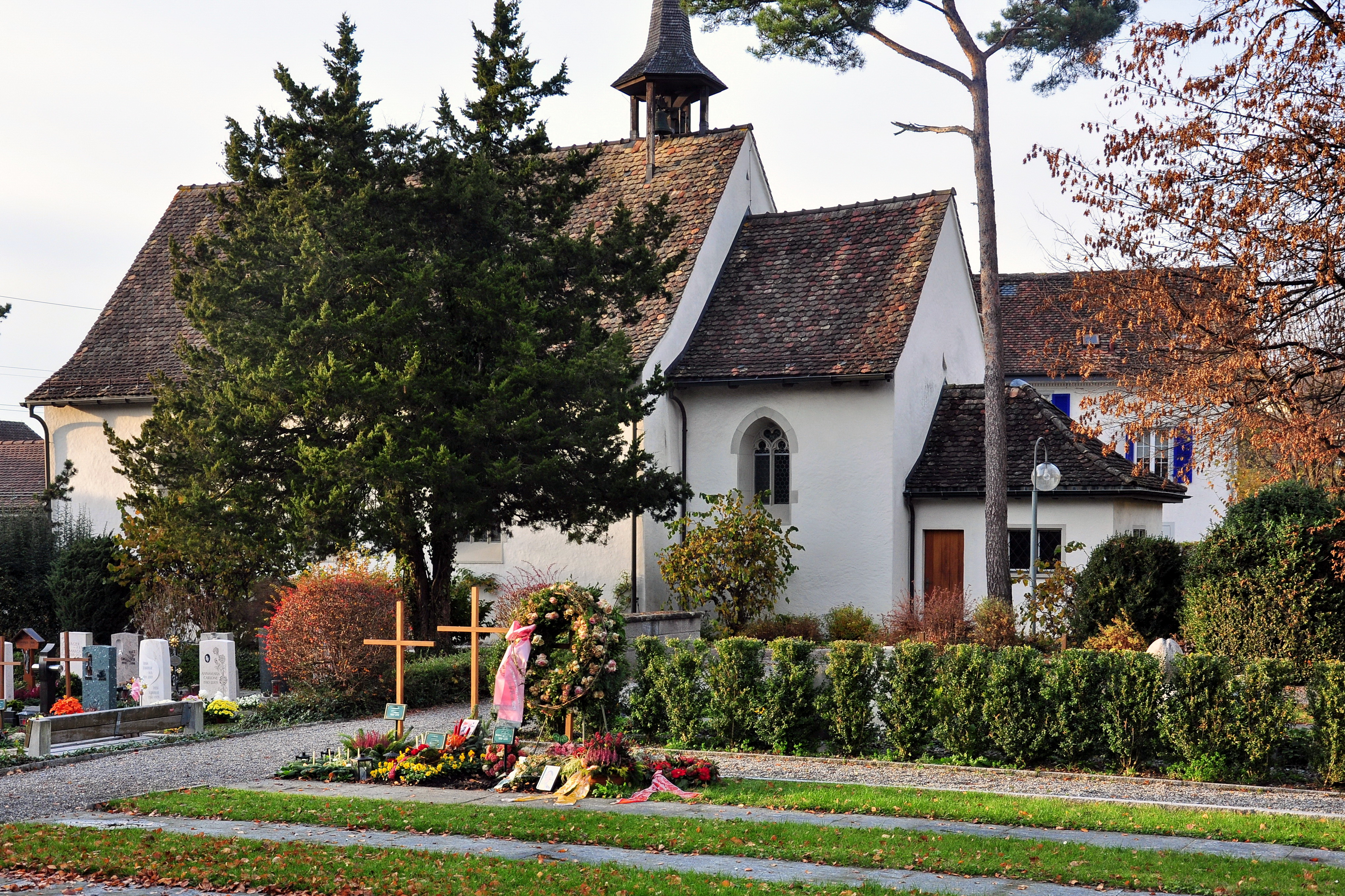 Kapelle St. Ursula in Kempraten respectively Rapperswil (Switzerland)